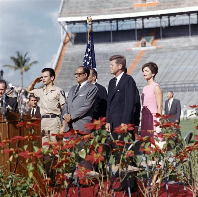 President Kennedy addresses the 2506 Brigade, 29 December 1962 ST-C75-15-62 29 December 1962 President Kennedy addresses the 2506 Cuban Invasion Brigade. L-R: Miami Mayor Robert King High, Manuel Artime (saluting), former Cuban President Jose Miro Cardona, President Kennedy, Mrs. Kennedy. Miami, Florida, Orange Bowl Stadium. Photograph by Cecil Stoughton, White House, in the John F. Kennedy Presidential Library and Museum, Boston